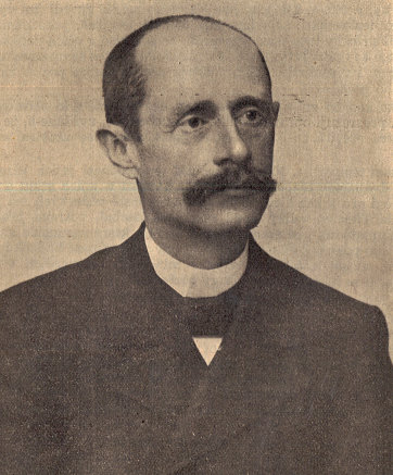 A portrait of Karel Thir